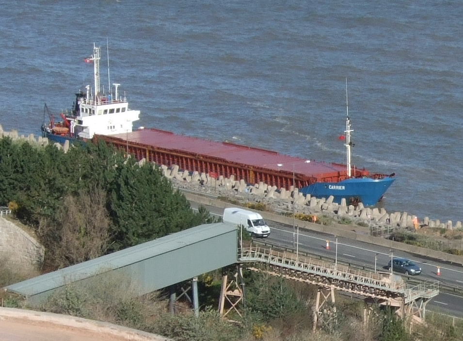 M.V. Carrier St John's